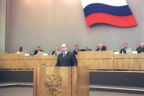 MOSCOW. Speech at the first session of the State Duma.